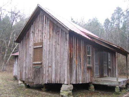 Nichols Cabin/House, Dent County, Missouri, USA in the Ozark National Scenic Riverways